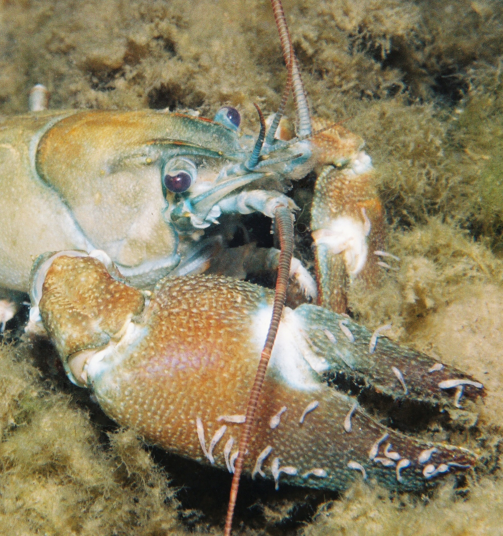 Branchiobdellid annelids attached to a signal crayfish in Lake Washington in Gene Coulon, Washington.